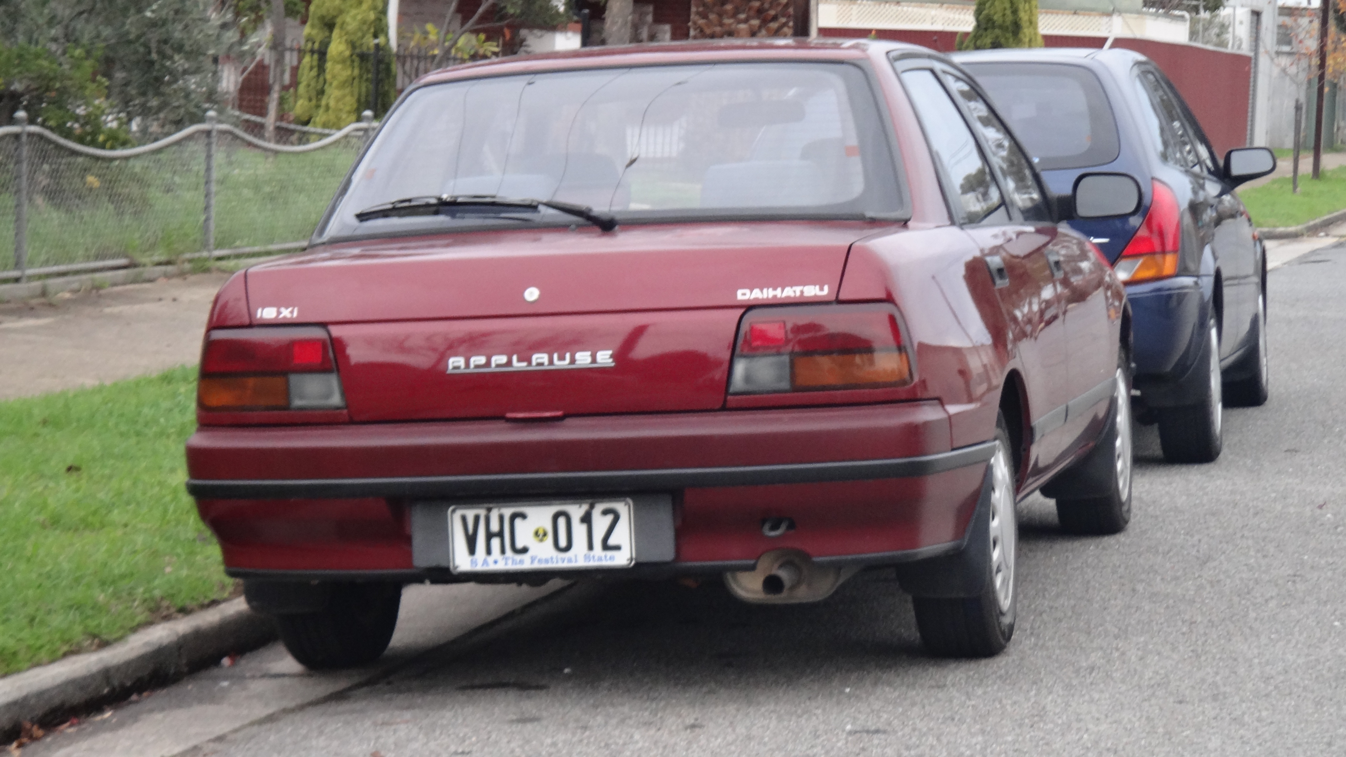 A funny little hatch, that looked like a sedan! For it's time, it was a very unusual design. If it wasn't for the rear wiper on these, you'd swear it was sedan!